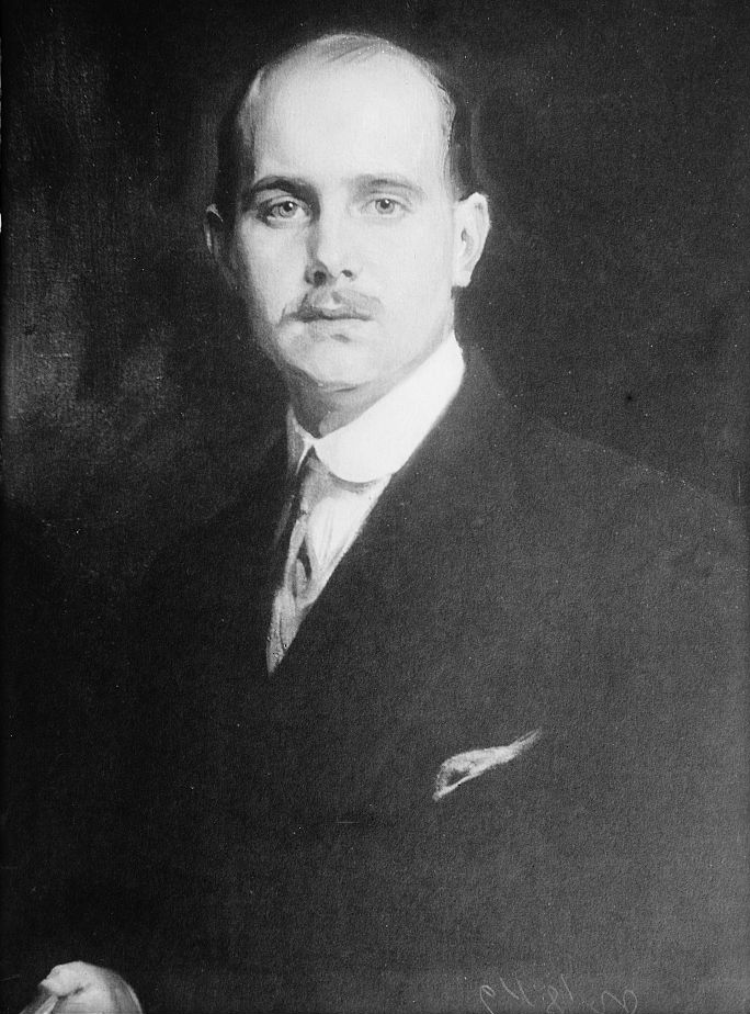 Prince Christopher of Greece and Denmark